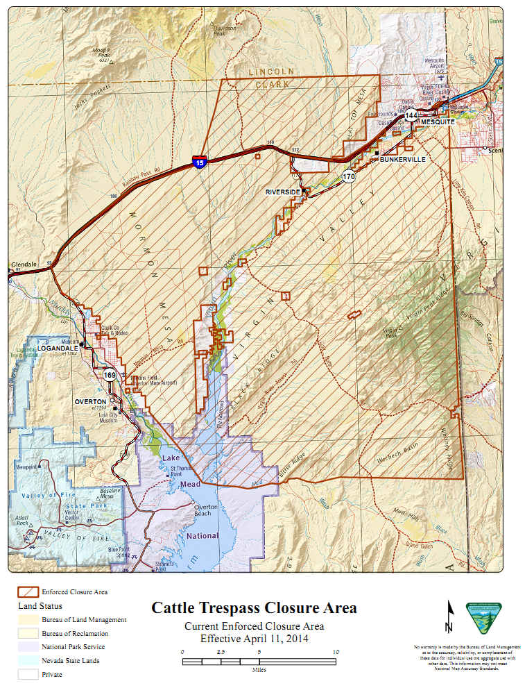 BLM Trespass Cattle Closure Map 04_11_2014 for Nevada on 11 April 2014